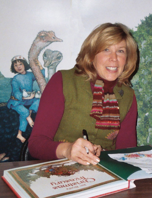 The children's author and illustrator, Jan Brett, at a St. Cloud, Minnesota, booksigning on 8 November 2003.